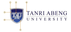 Logo Tanri Abeng University